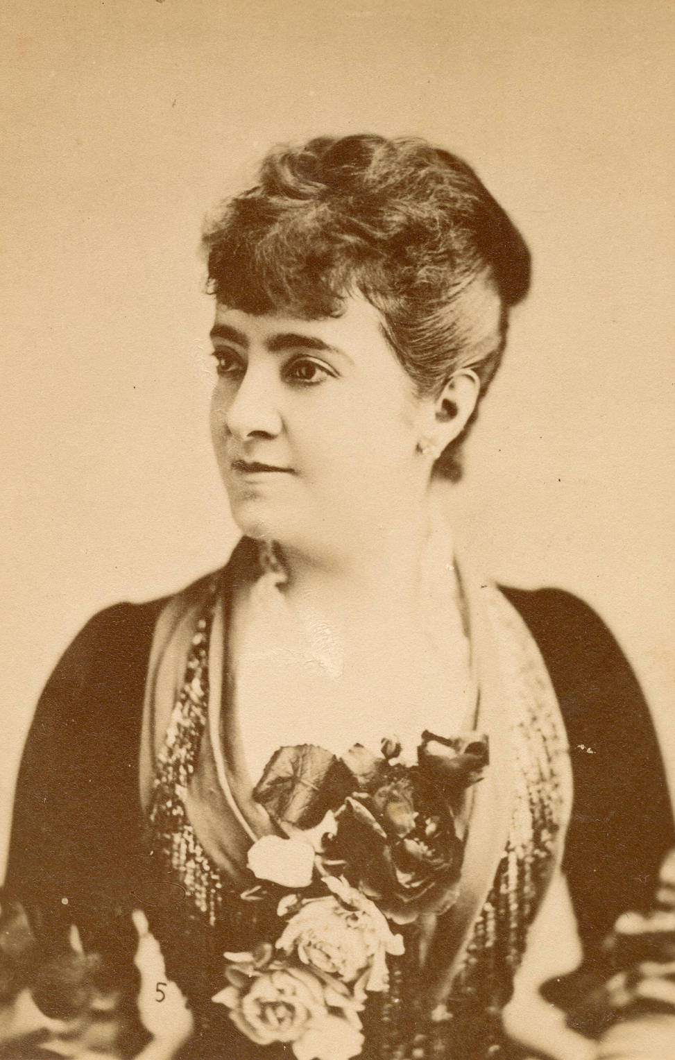 Adelina Patti, singer Subjects: singers